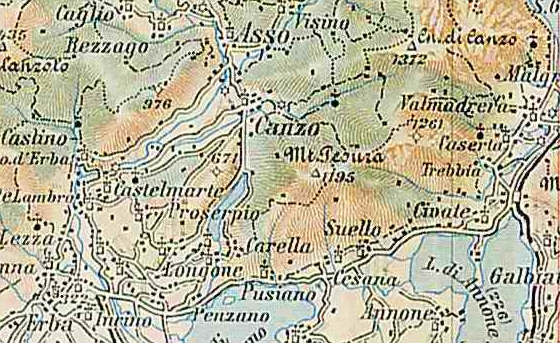 portion of map from "3rd Military Mapping Survey of Austria-Hungary - Como" showing area around Canzo